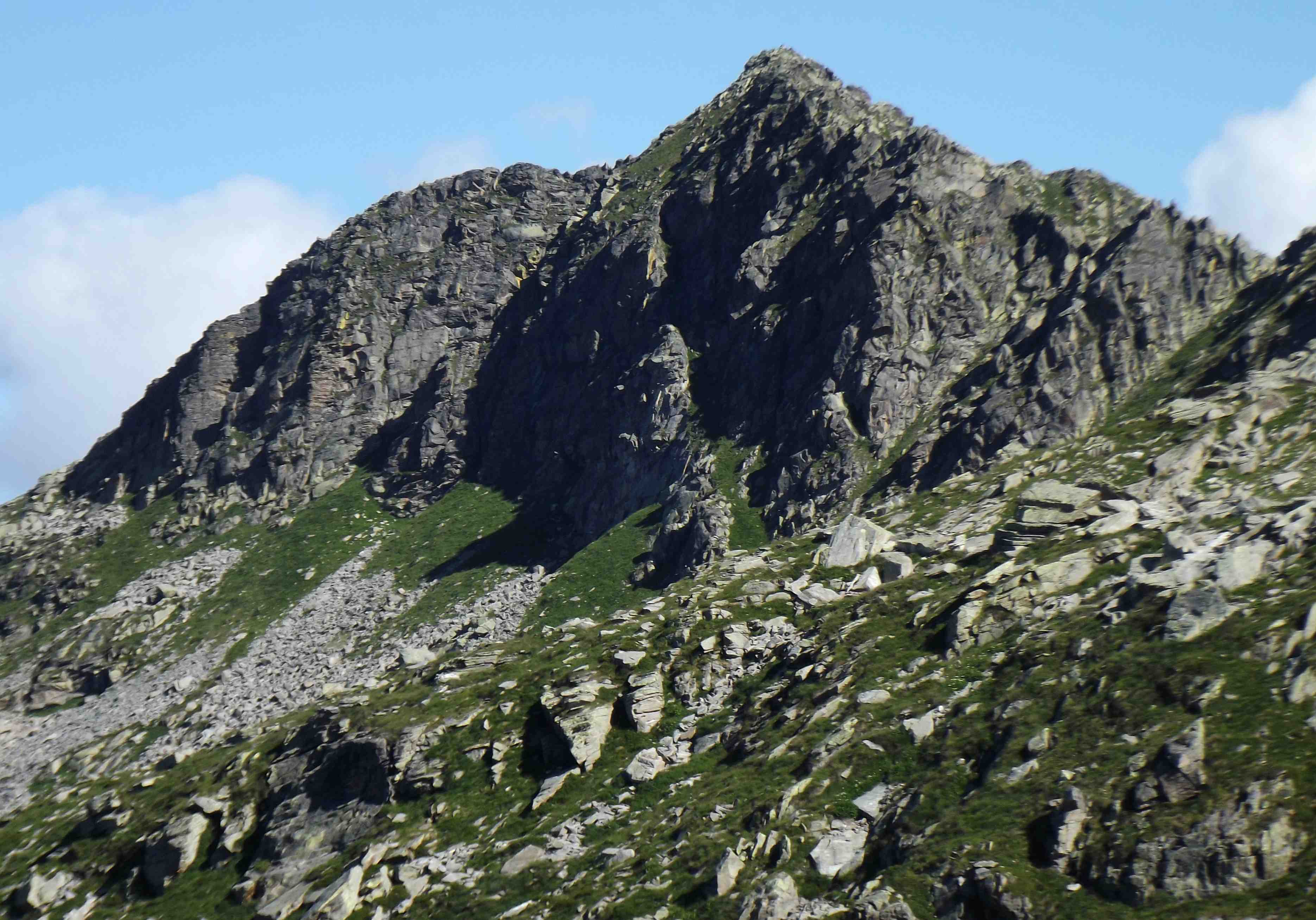 Punta Lazoney (Pennine Alps) as seen from Mologna Grande pass